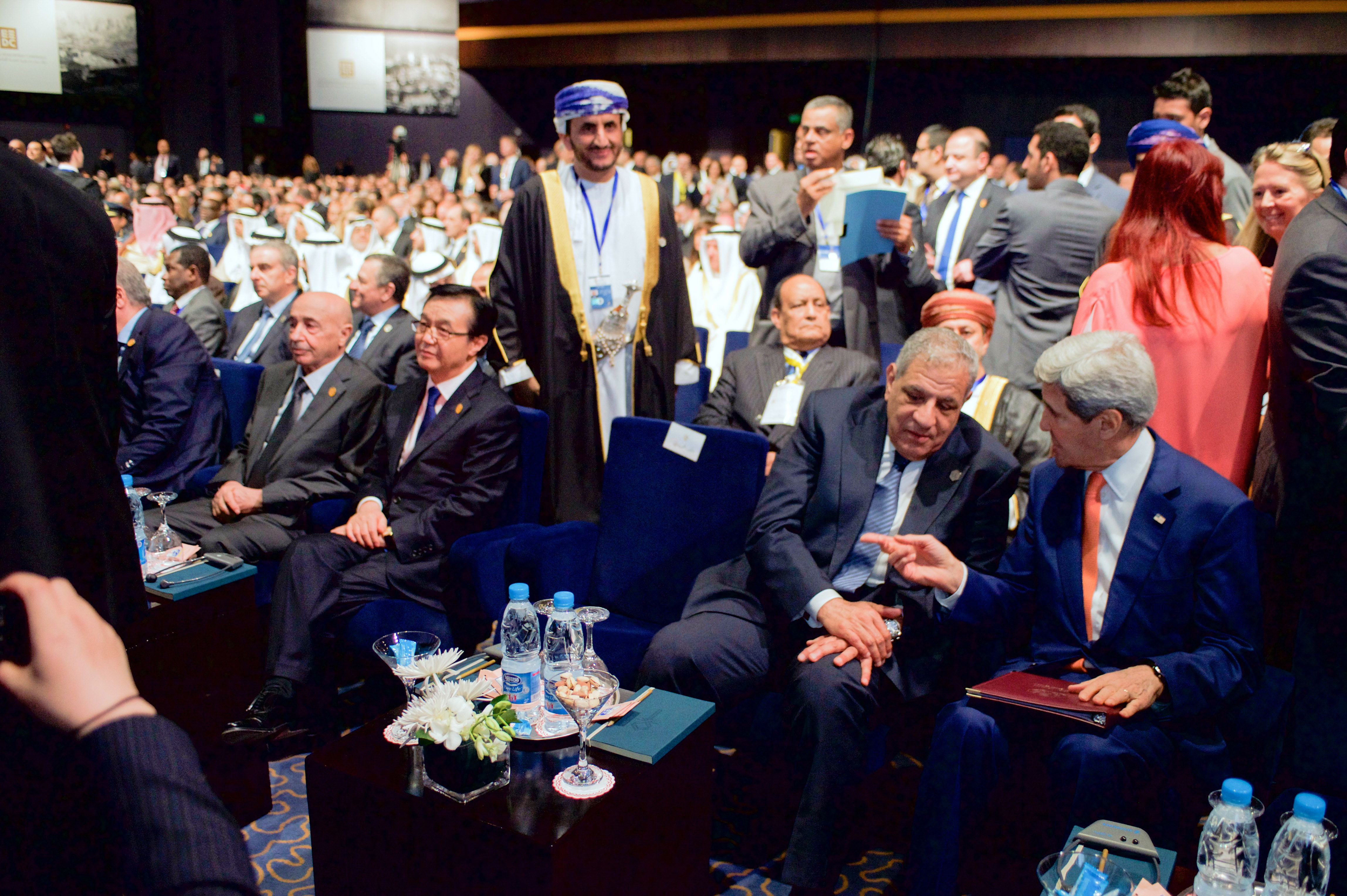 U.S. Secretary of State John Kerry chats with Egyptian Prime Minister Ibrahim Mahlab at the Congress Center in Sharm el-Sheikh, Egypt, on March 13, 2015, before the plenary session of an Egyptian development conference. [State Department photo/ Public Domain]